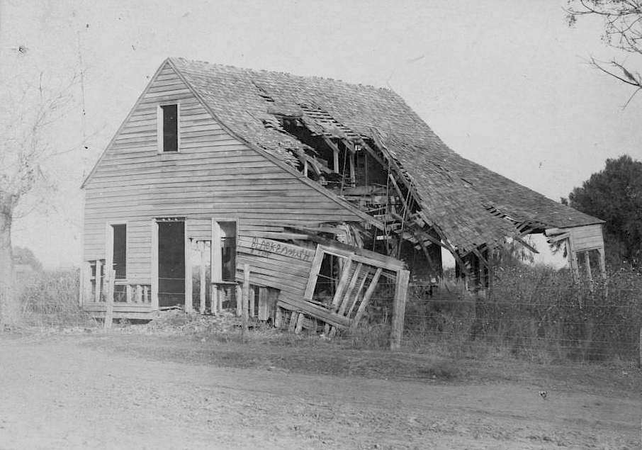 A capitol building once located in Columbia, Texas that housed the House of Representatives of the Republic of Texas in 1836. It was built by Leman Kelsey in 1833, and was destroyed in 1900 from the 1900 Galveston Hurricane. A replica was rebuilt on the same site in 1977 that still stands.